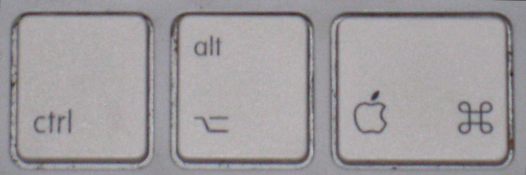 Image showing the location of the Option key on a MacBook keyboard.